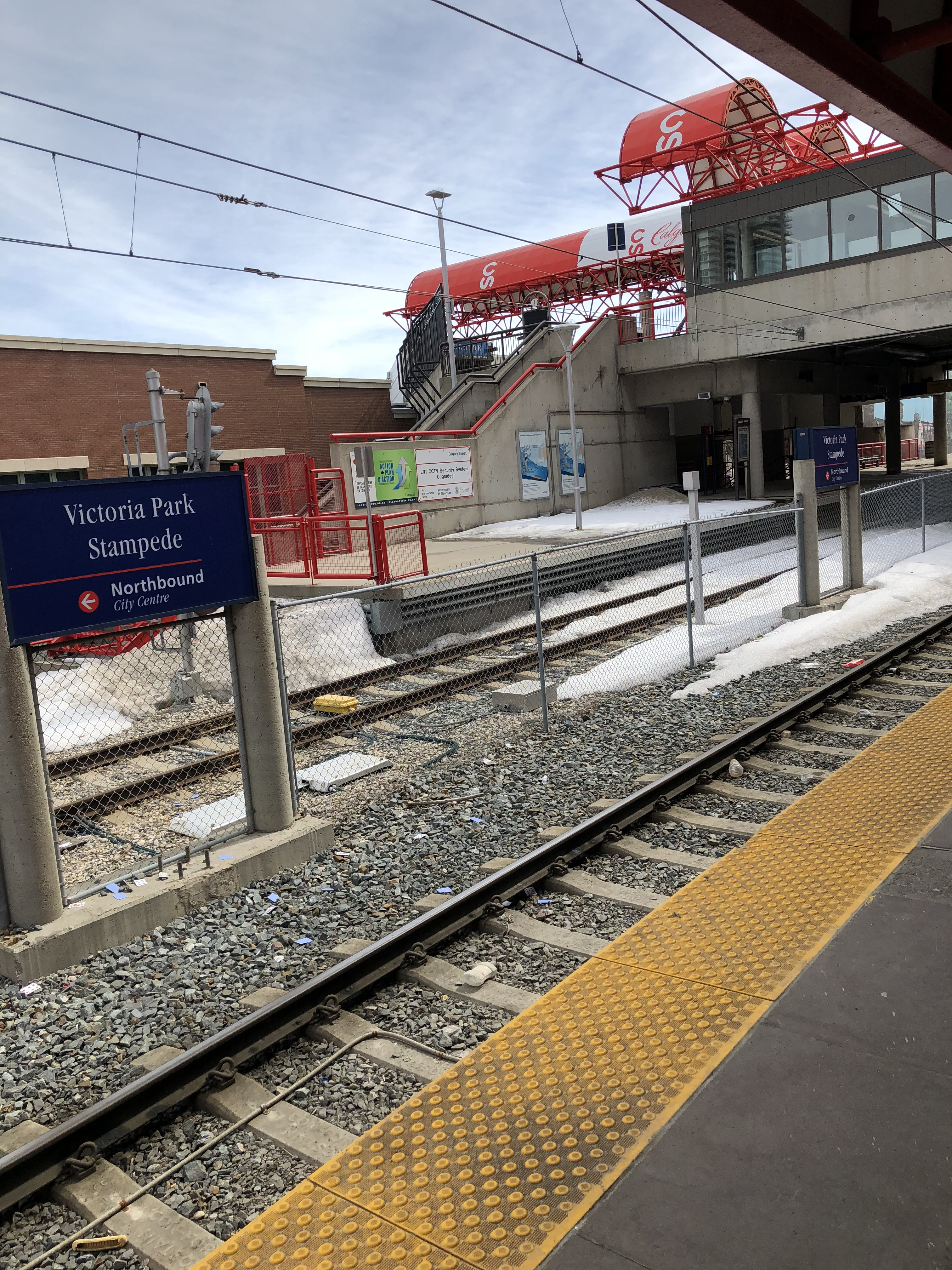 The secondary platform at in Calgary, Alberta.